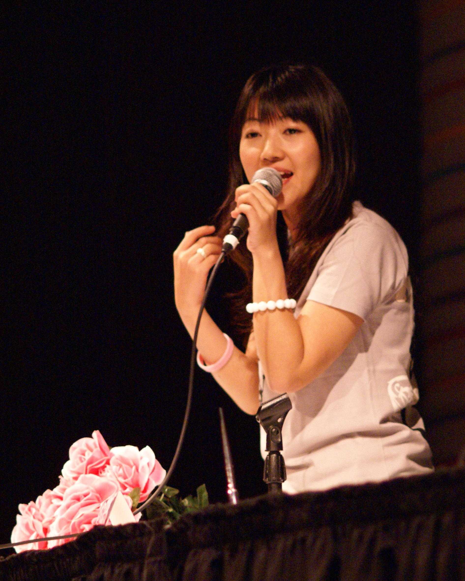 Haruko Momoi (Halko Momoi) is a Japanese voice actress and singer/songwriter. At Anime Expo 2007.